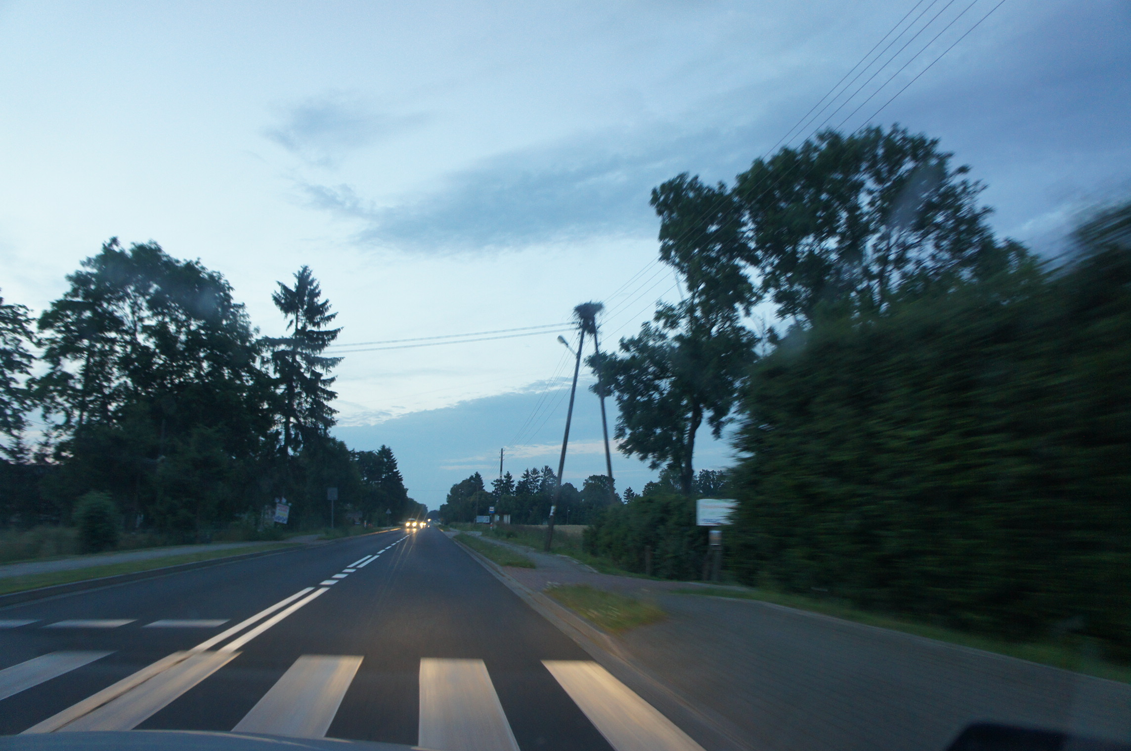 Stork nest in Jarzysław, Poland